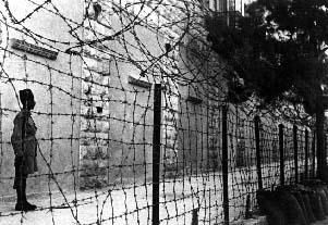 Bevingrad. Security zone in Jerusalem during the British Mandate on Palestine. This zone was taken by jewish forces during operation Kilshon on May 15, 1948.